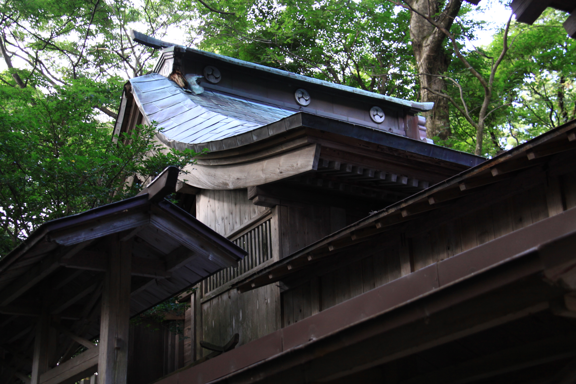 Omonoimi jinja Honden in Yamadate, Sakata, Yamagata.